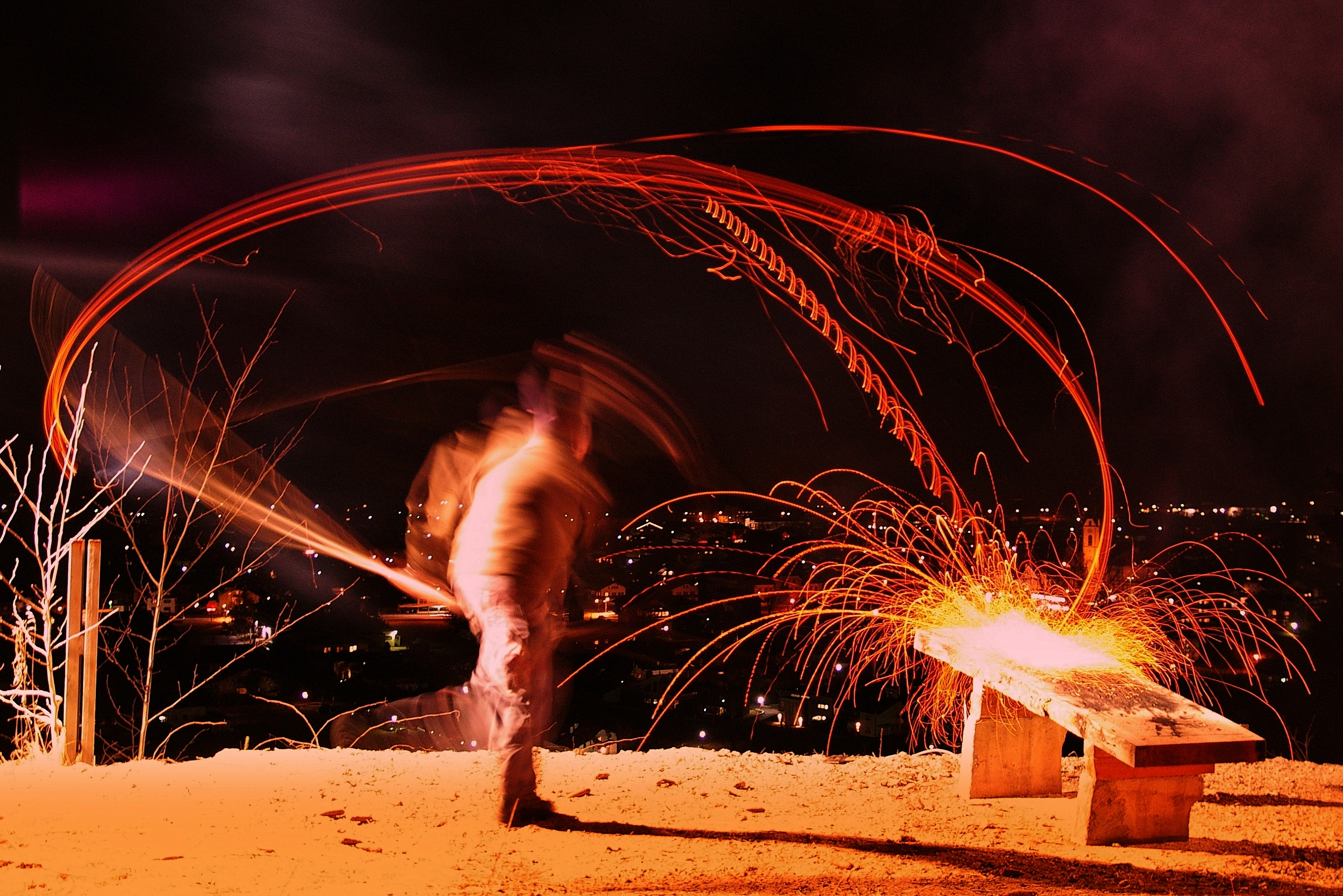 Traditional disk hitting (Scheibenschlagen), taking place on Septuagesima. Photo taken at Zams, North Tyrol.